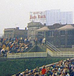 Baby Ruth ad on building across from Wrigley Field.